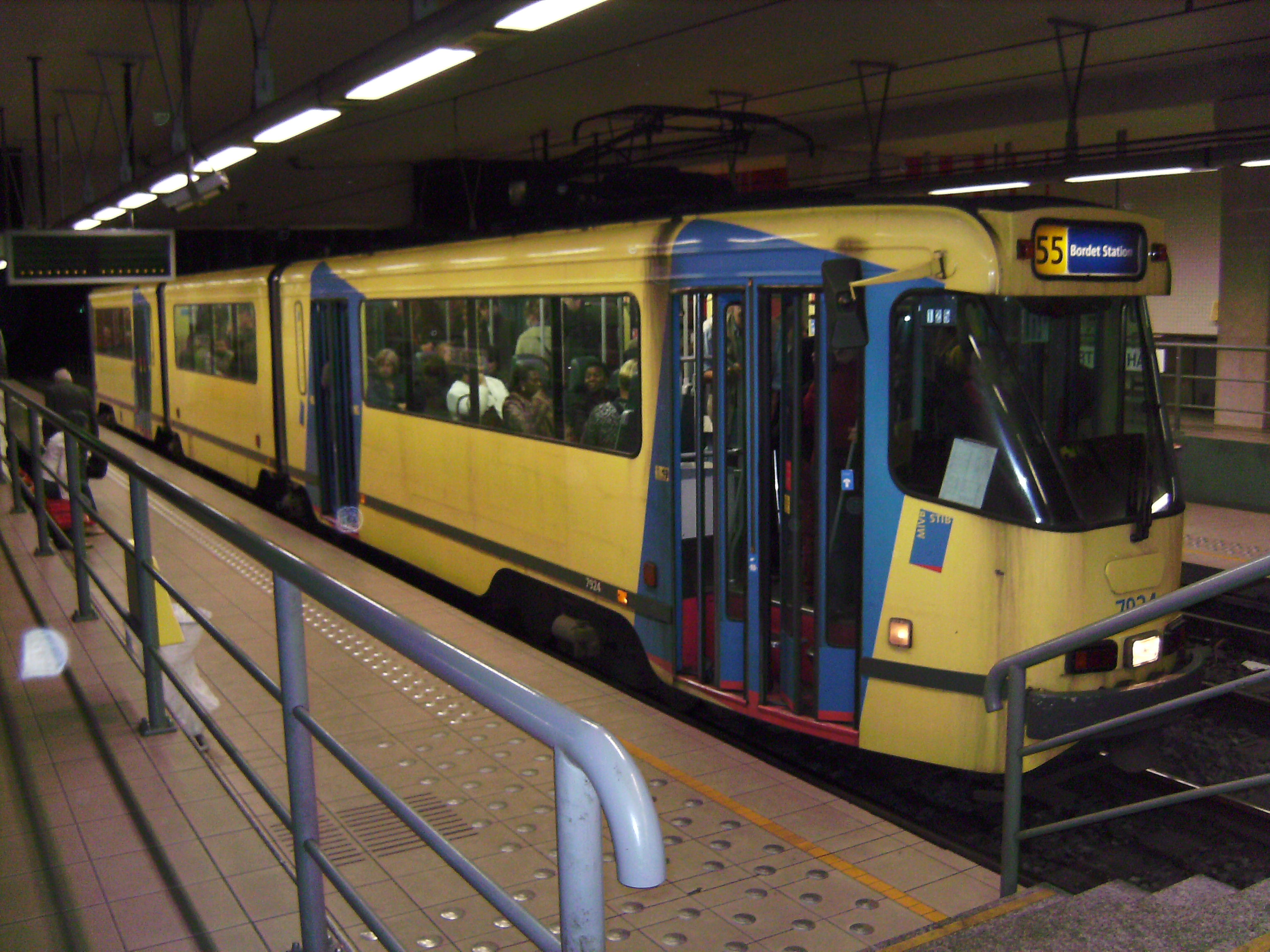 Tram 55 in the Hallepoort/Port de Hale station of Brussels underground tram network.